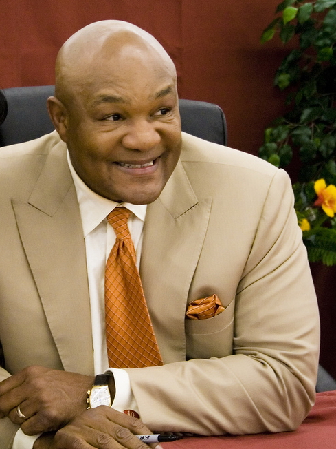 George Foreman, of grilling fame, poses for a picture with a female fan and fellow Wal-Mart shopper